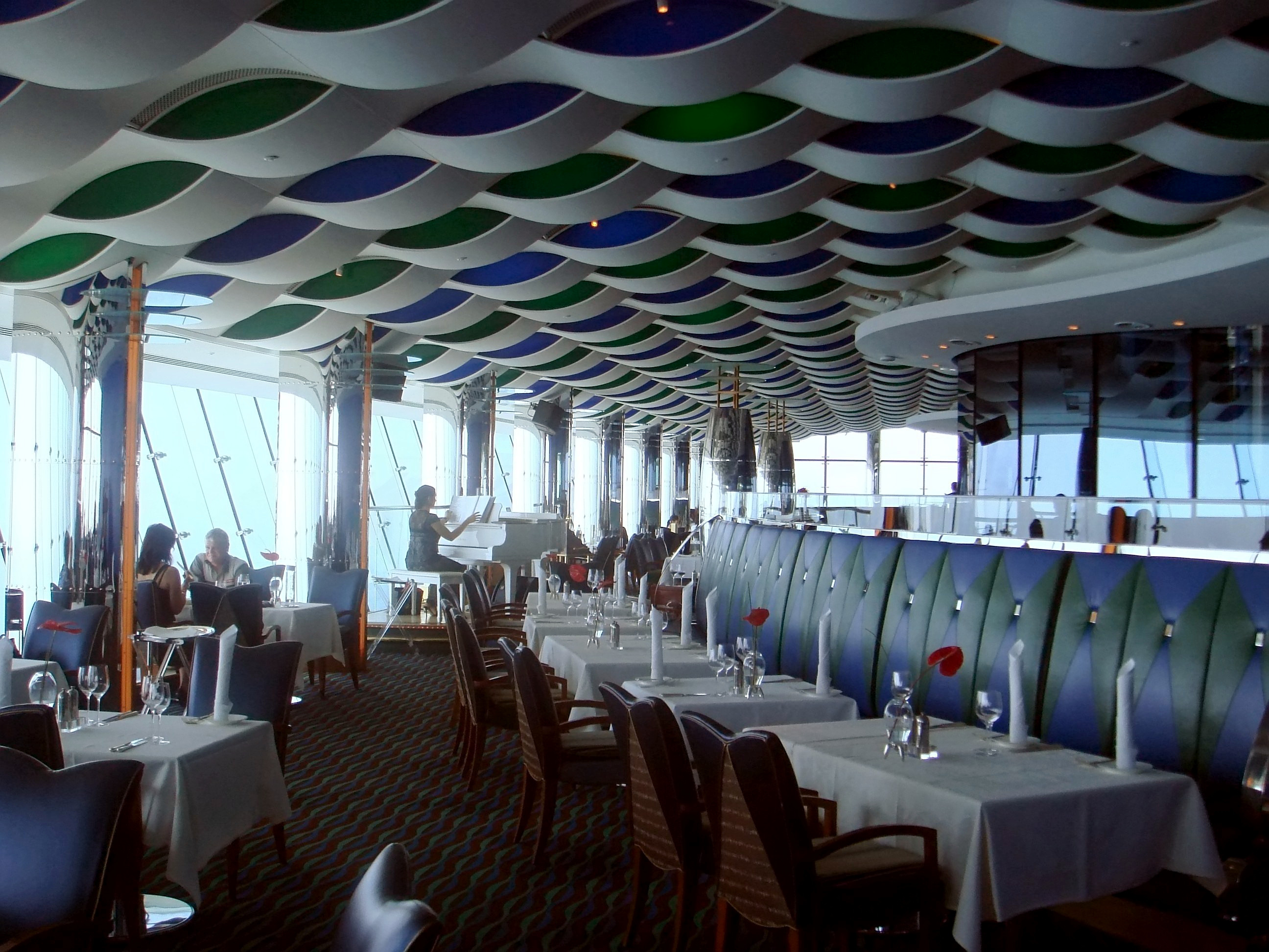 Al Muntaha Restaurant extending out of the Burj Al Arab, 200 m (656 ft) above the Persian Gulf.